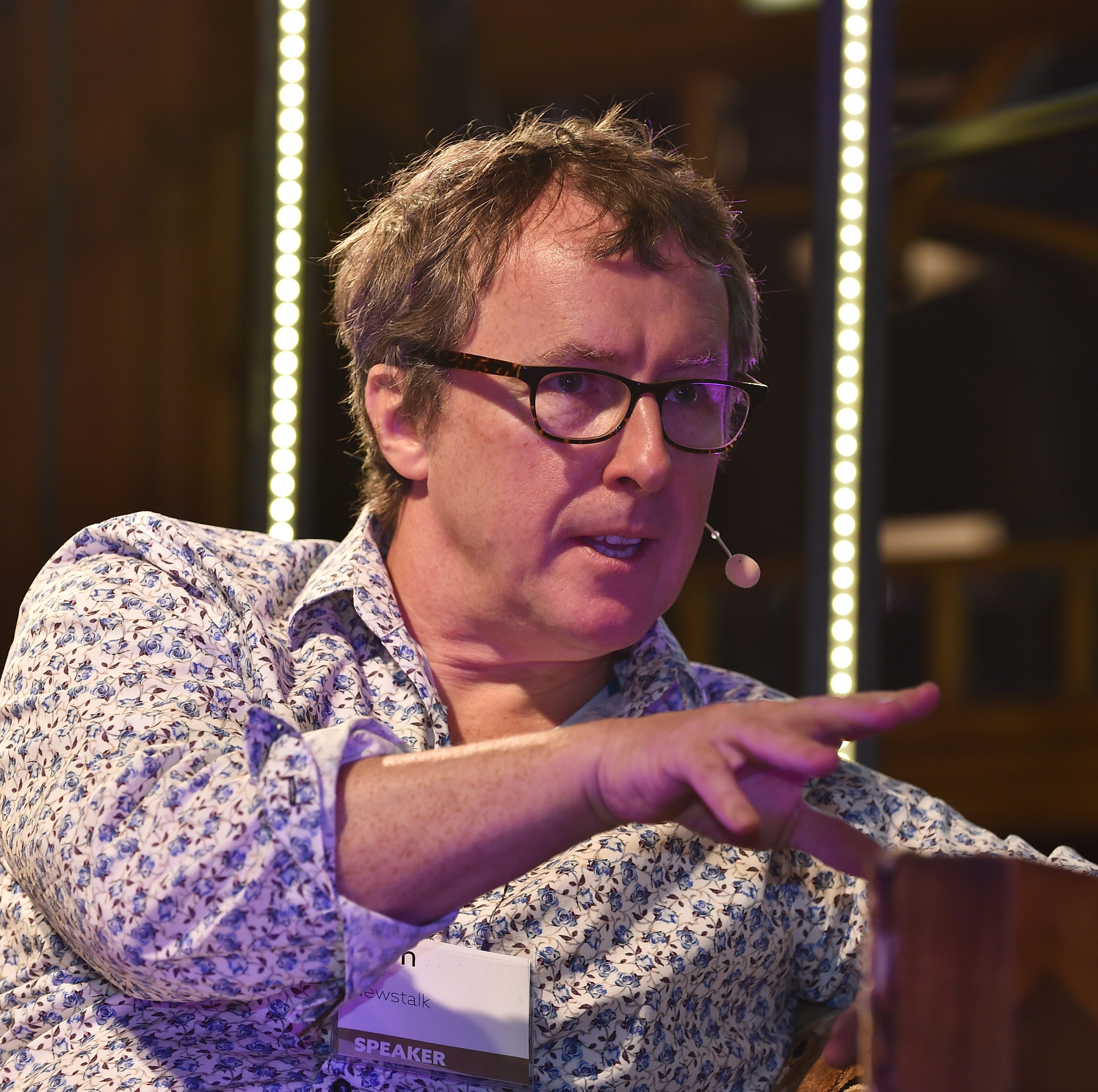 6 November 2014; Tom Dunne, Newstalk, discusses The New Collaboration: Jamming in the Digital Age on the music stage during Day 3 of the 2014 Web Summit in the RDS, Dublin, Ireland. Picture credit: Diarmuid Greene / SPORTSFILE / Web Summit